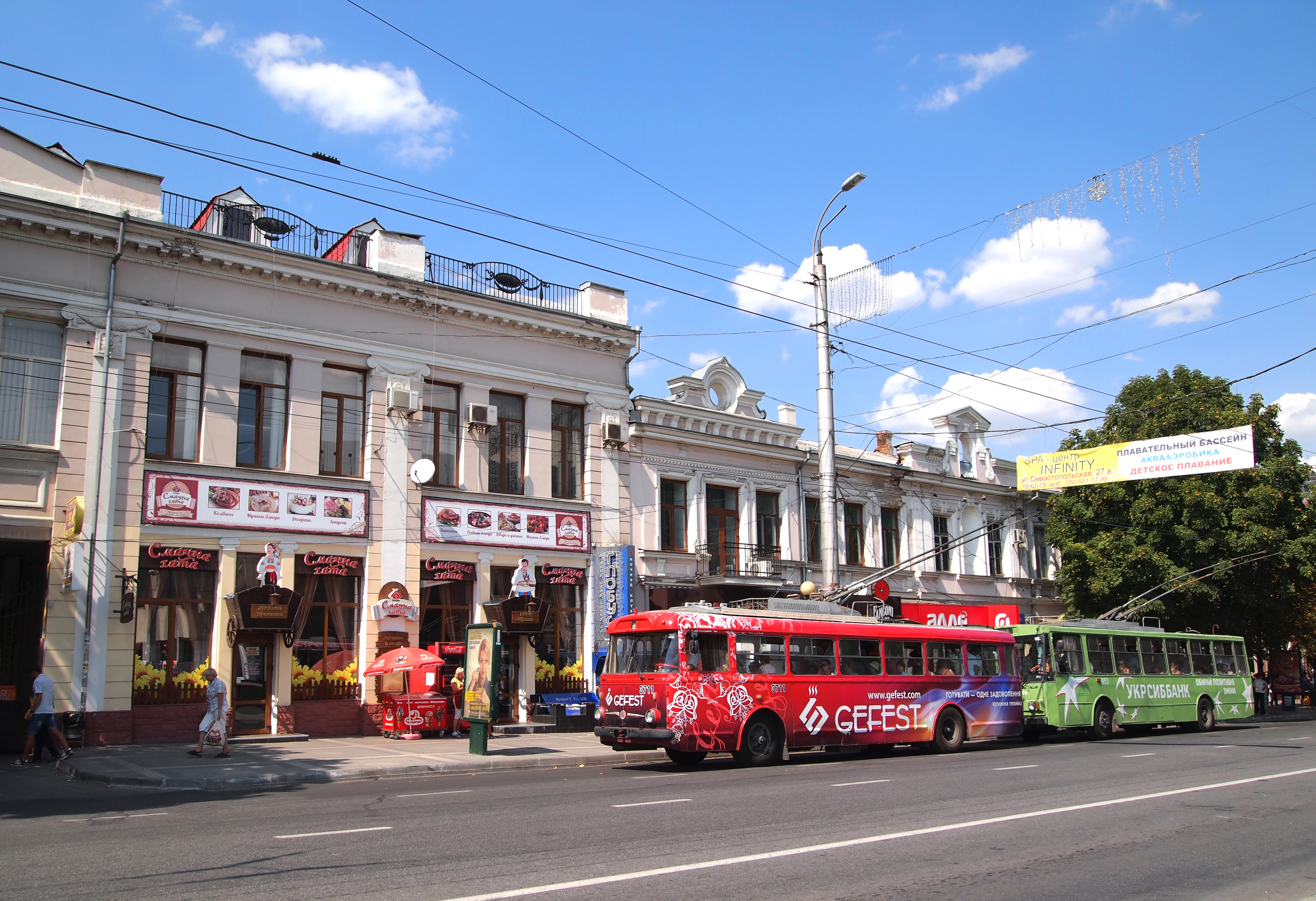 Red and green trolley bus on the Kirova street, Simferopol. This photograph was taken with an Olympus E-PL1.